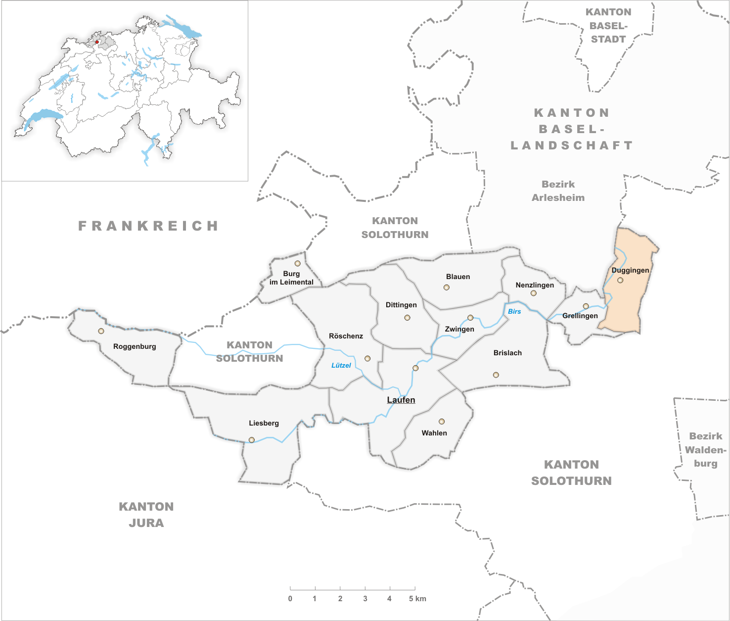 Municipality Duggingen